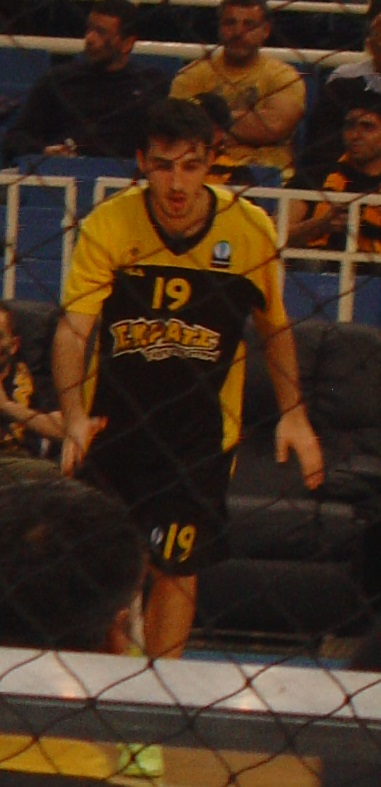 katsivelis 2015